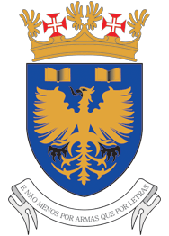 Portuguese Air Force Academy coat of arms Motto "And not least with weapons rather letters"